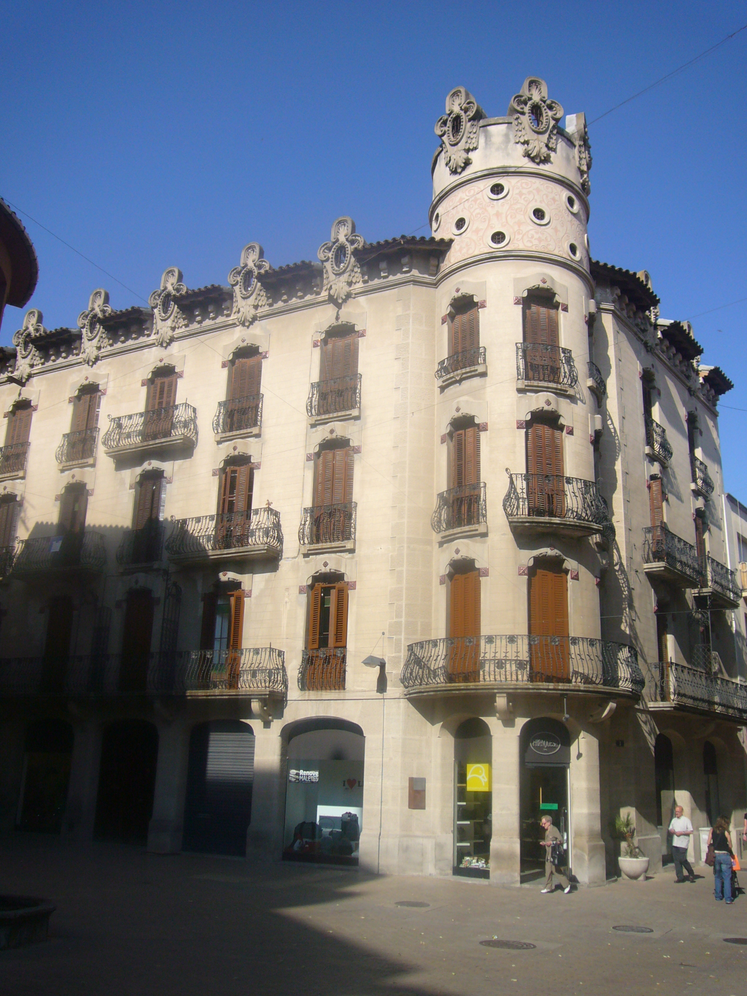 Modernisme building Ca la Mamita (Cal Franquesa), in Igualada